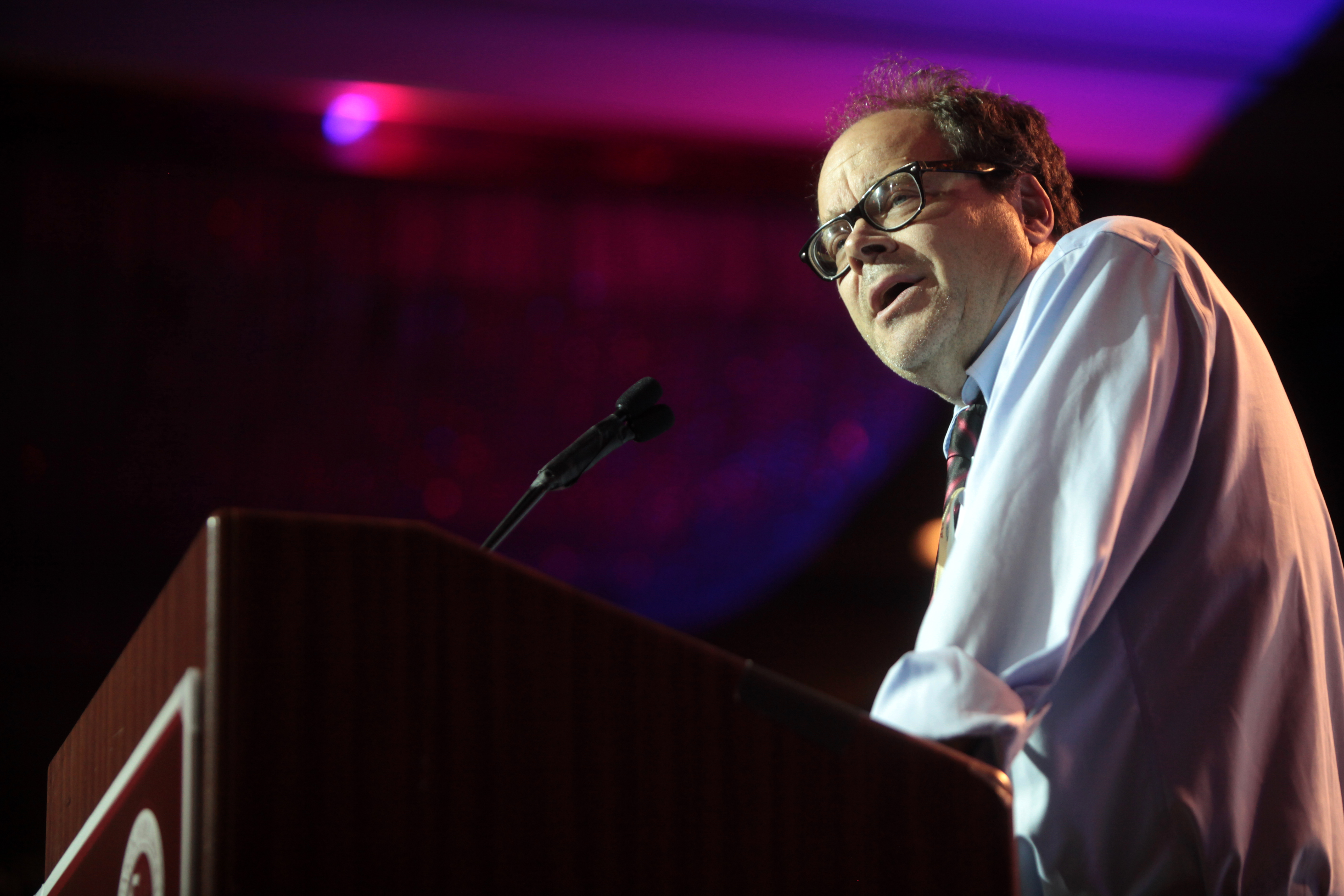 Bill Kauffman speaking at the 2014 Liberty Political Action Conference (LPAC) at the Hilton Alexandria Mark Center in Alexandria, Virginia.